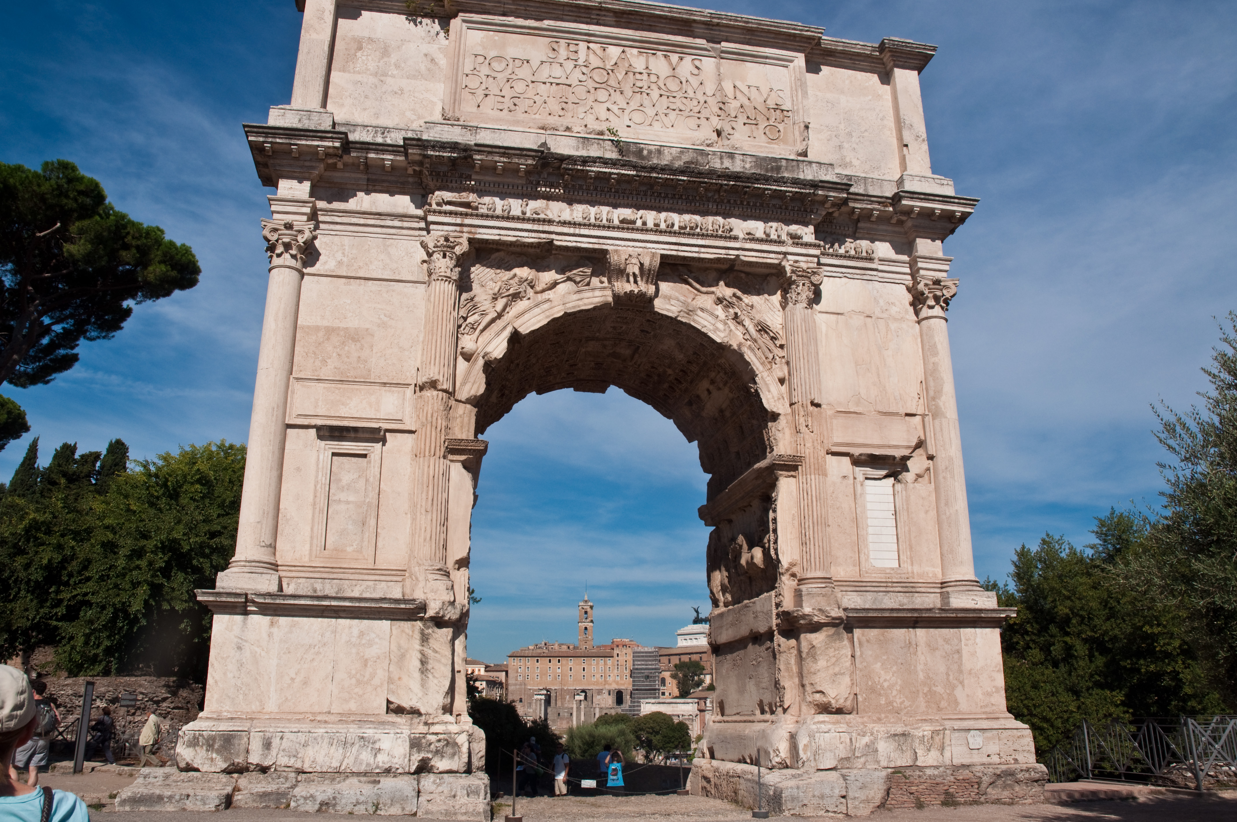 Titus' Arch, Rome, 7 Sept. 2011